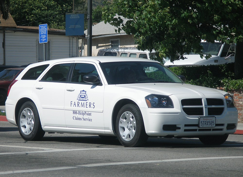 A Dodge Magnum in the livery of Farmers Insurance, in Fillmore.